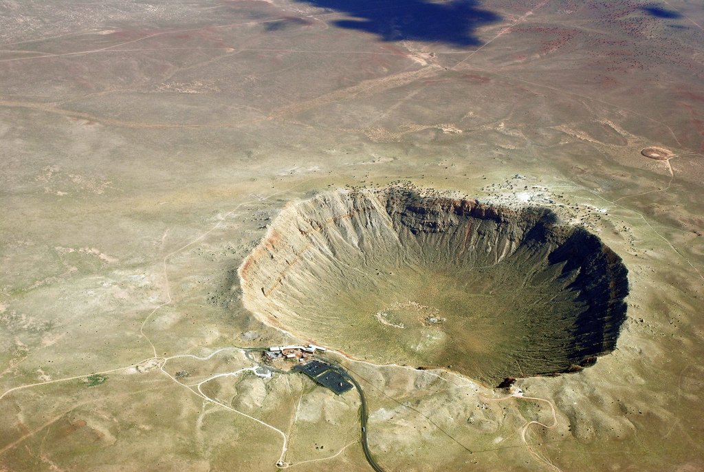 Meteor Crater Aerial View 2010